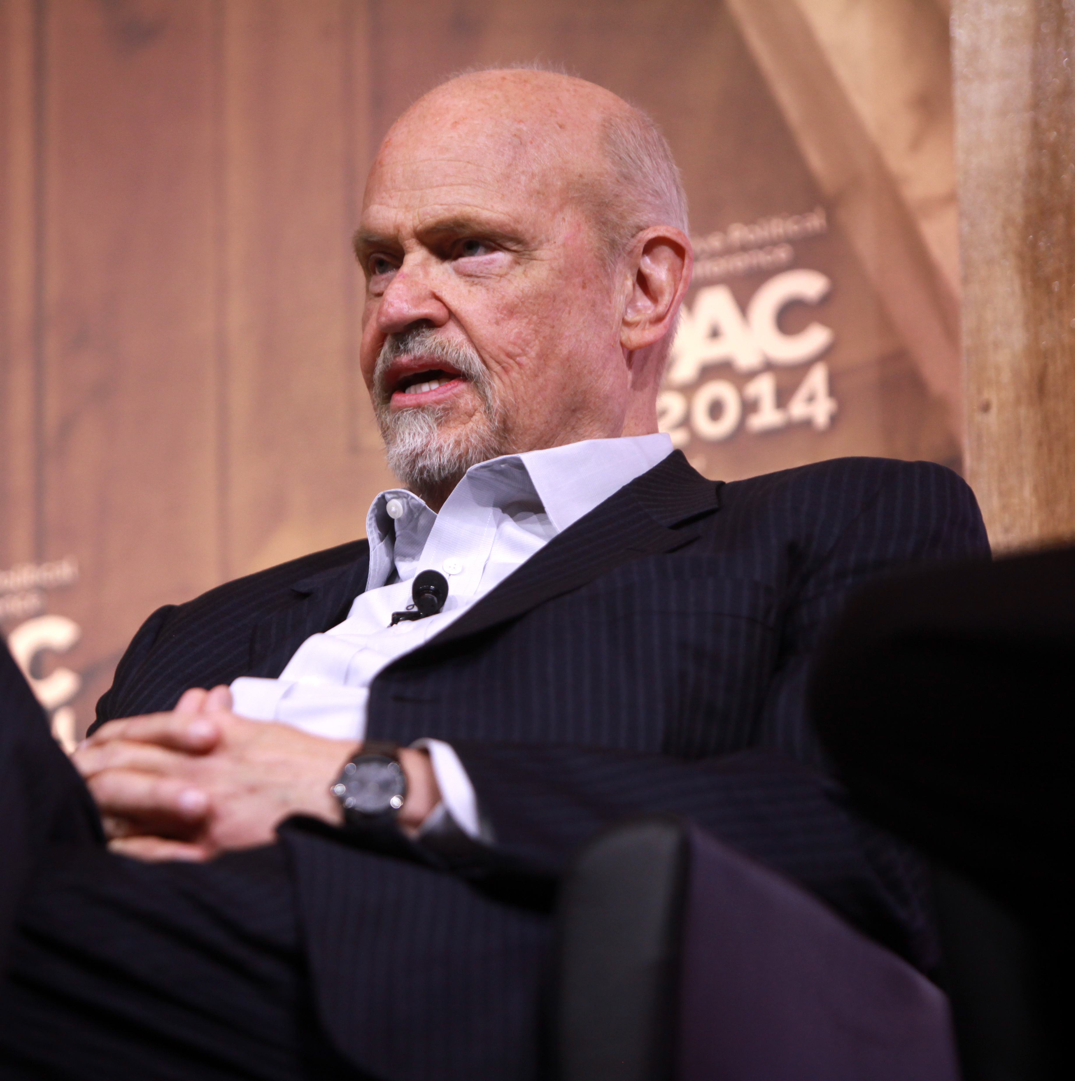 Fred Thompson speaking at CPAC 2014 in Washington, D.C.